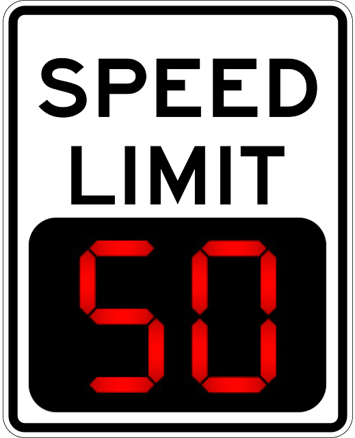 I hereby affirm that I, (kcida10) the creator of ( Variable_speed_limit_digital_speed_limit_sign ) is my work. I agree to publish that work under the free license This file is made available under the Creative Commons CC0 1.0 Universal Public Domain Dedication. The person who associated a work with this deed has dedicated the work to the public domain by waiving all of their rights to the work worldwide under copyright law, including all related and neighboring rights, to the extent allowed by law. You can copy, modify, distribute and perform the work, even for commercial purposes, all without asking permission. I acknowledge that by doing so I grant anyone the right to use the work in a commercial product or otherwise, and to modify it according to their needs, I am aware that this agreement is not limited to Wikipedia or related sites. Modifications others make to the work will not be claimed to have been made by me. I acknowledge that I cannot withdraw this agreement, and that the content may or may not be kept permanently on a Wikimedia project. Kcida10 La Crosse, WI 54603. I am the designer and creator of the 3D model ( Variable_speed_limit_digital_speed_limit_sign ) on Sketchup Make's open source repository. 29Nov15